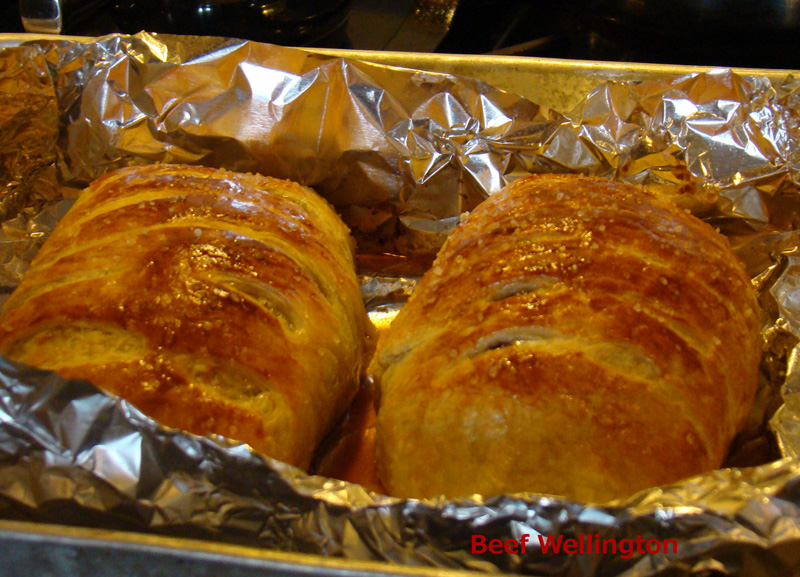 The perfect Beef Wellington